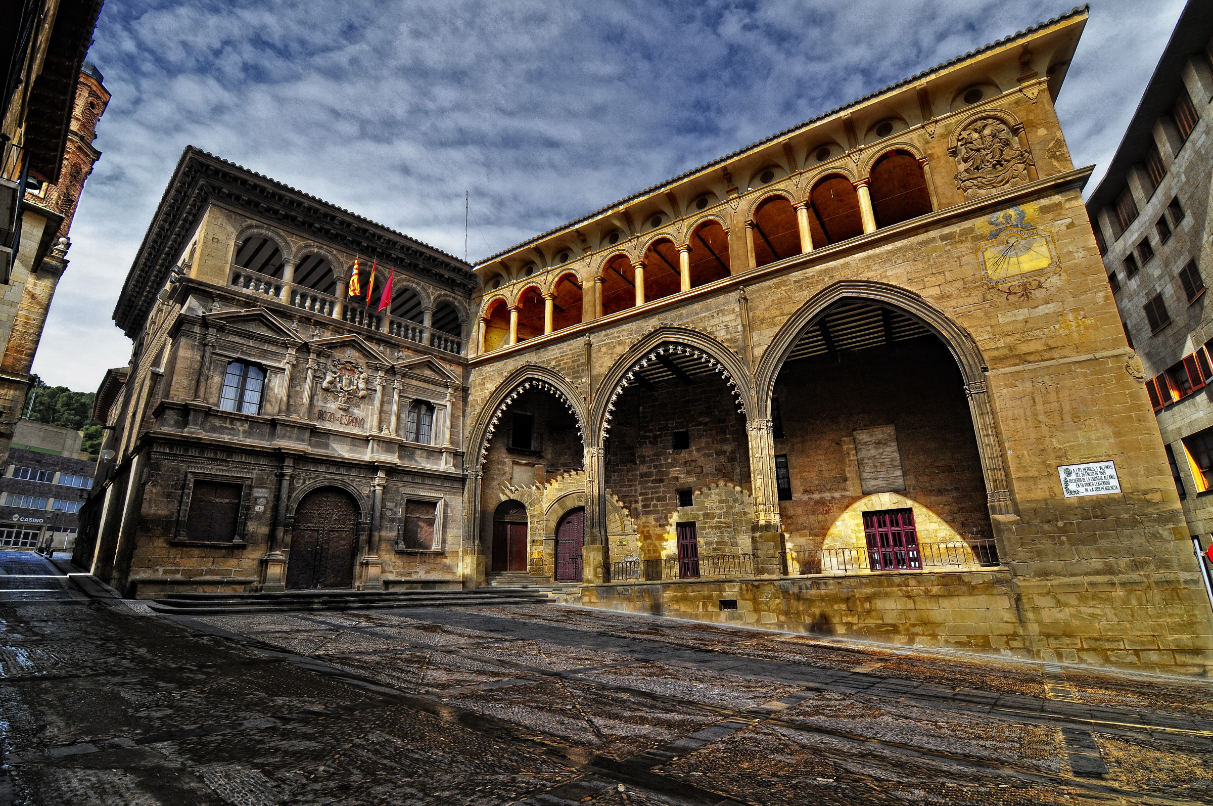 The power of the city itself against the Order of Calatrava is symbolized by its beautiful Town Hall (1565-1570), built in the main square, forming an angle to the Gothic Lonja. Both buildings were declared historical monument in 1931 (Gazeta de Madrid, No. 155, 04/06/1931). This building, a magnificent classical example, evokes the great circle of humanists alcañizanos their particular Golden Age: John sonarías, Juan Lorenzo Palmireno, Miedes Bernardino Gómez, Domingo Andrés, Pedro Ruiz de Moros y Andrés Vives and Altafulla, to name the most prominent (which is devoted to an article in this volume). The sixteenth century also left its mark on the castle itself, with the alabaster tomb of the commander Don Juan de Lanuza by Damián Forment made in 1537 - and tables preserved in their parish church attributed to the "Master of Alcaniz. They are also fine examples of the art world alcañizano XVI century church of Santo Domingo in which blend tradition with the new language Gothic-Renaissance and a number of palatial buildings.